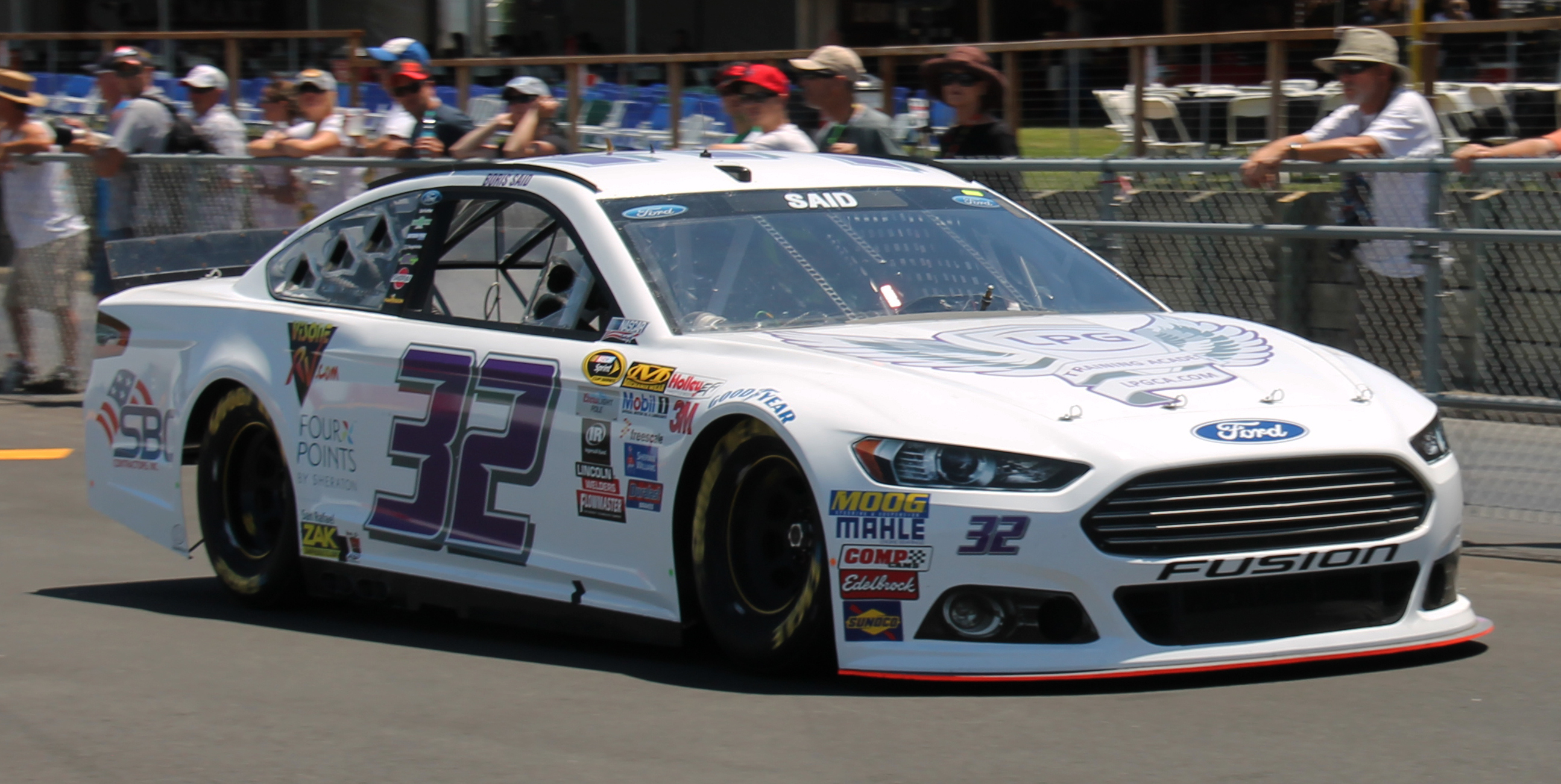 Boris Said's #32 at the 2015 Toyota/Save Mart, Sonoma, California